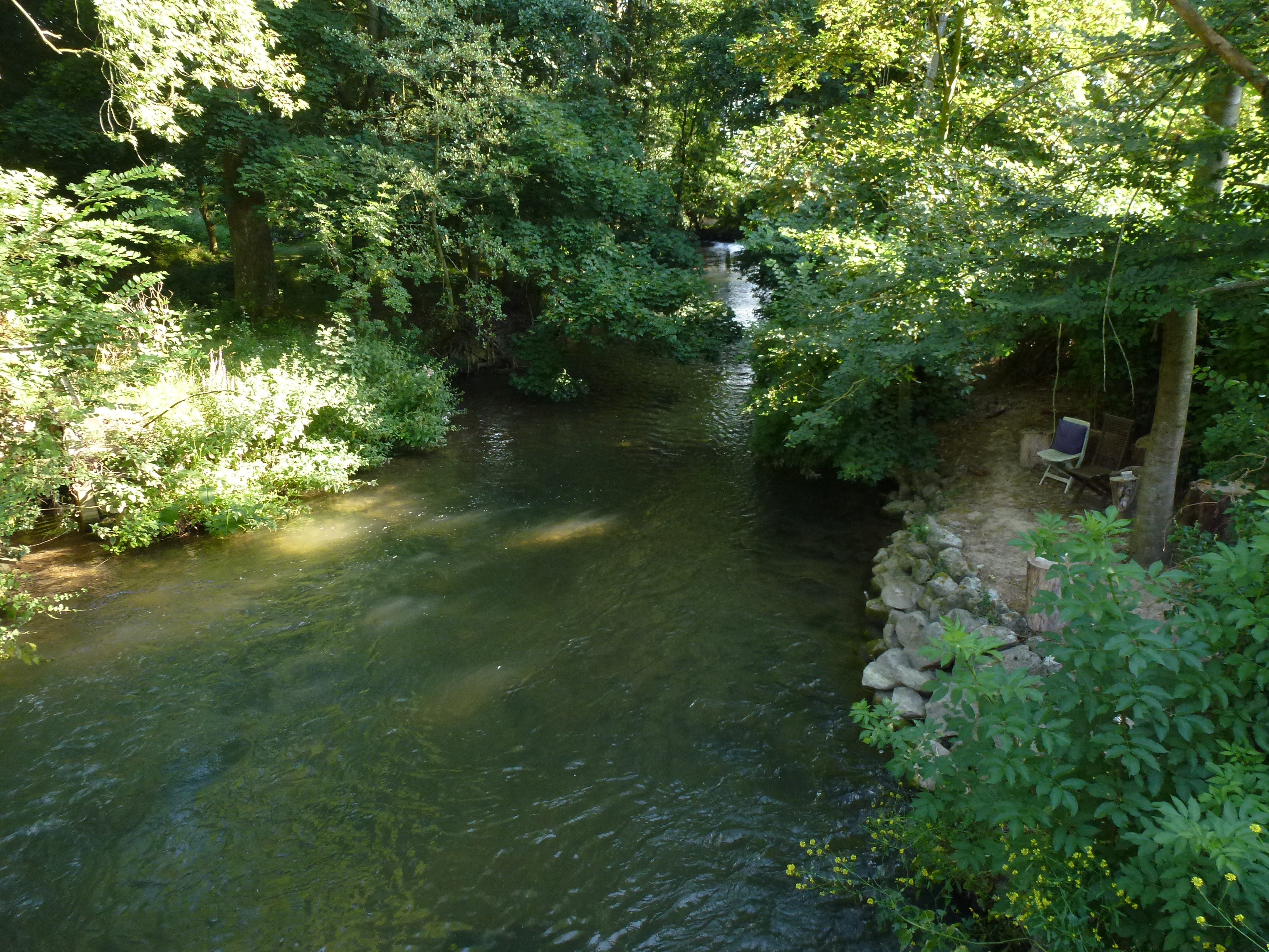 Recques-sur-Hem (Pas-de-Calais) la rivière Hem